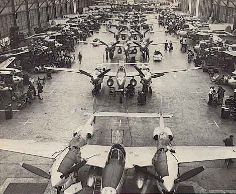 P-38 production at the Lockheed "Skunk Works" (between 24-30 planes)